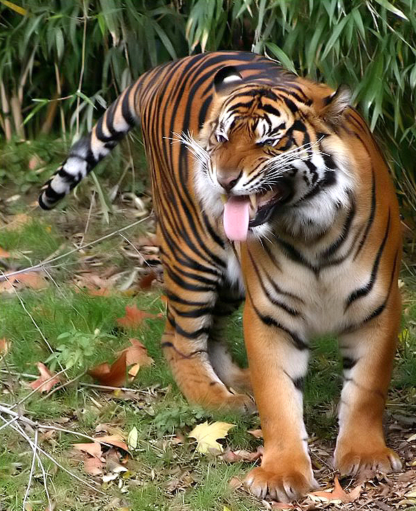 Panthera titi sumatrae, Zoo Frankfurt, Germany. This particular tiger is demonstrating "flehmen", a gesture used by tigers to enhance scenting.